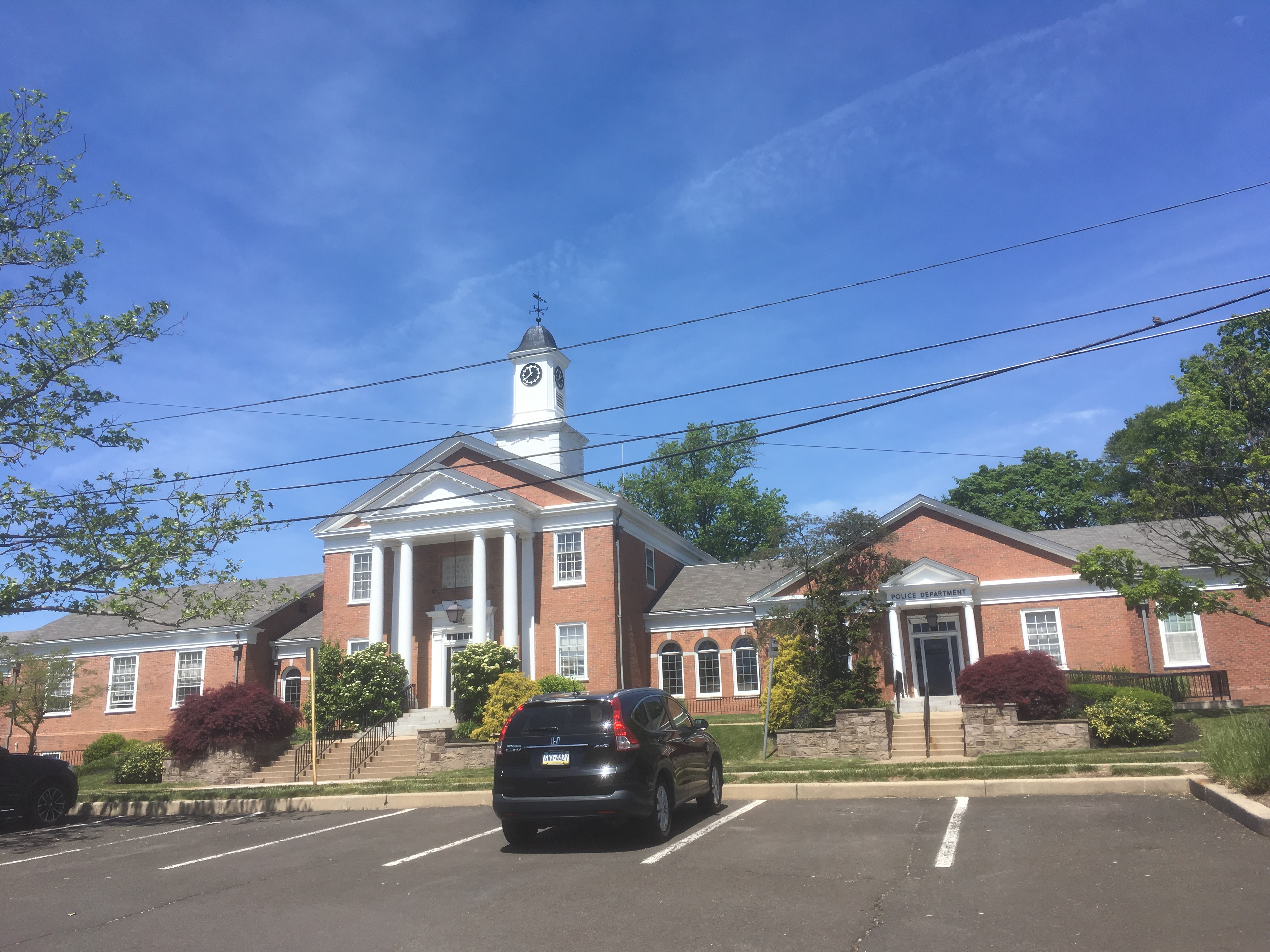 The municipal building in Upper Moreland Township, Montgomery County, Pennsylvania